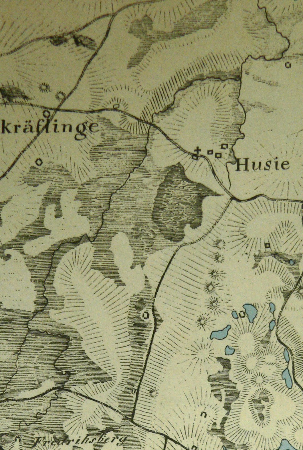 Cutout of map Rekognosceringskartan published in 1820 shoving Risebergabäcken through Husie. From Freriksberg in the lower left corner to the upper right corner.